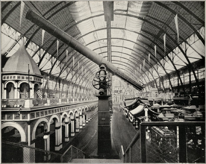 "Chicago's Great Telescope." Yerkes. Interior of Manufactures and Liberal Arts Building. From Columbian Gallery: A Portfolio of Photographs of the World's Fair, The Werner Company. 1893. Digitial Identifier: GN90799d_CG_166w World's Columbian Exposition Collection at The Field Museum